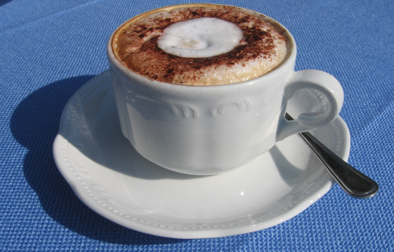 A cup of cappuccino. This picture was taken in Italy.